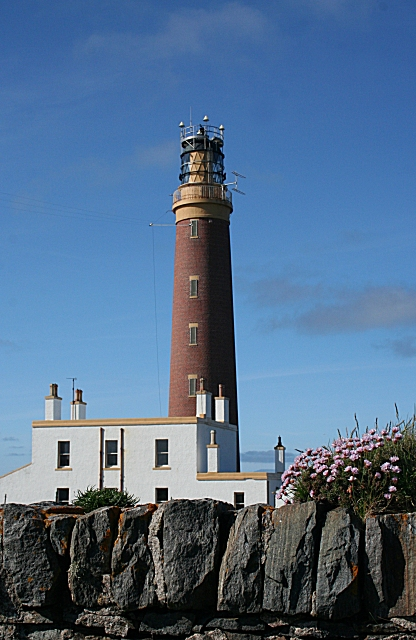 Rubha Robhanais Lighthouse A clump of thrift grows on the wall which surrounds the lighthouse and its ancillary buildings.